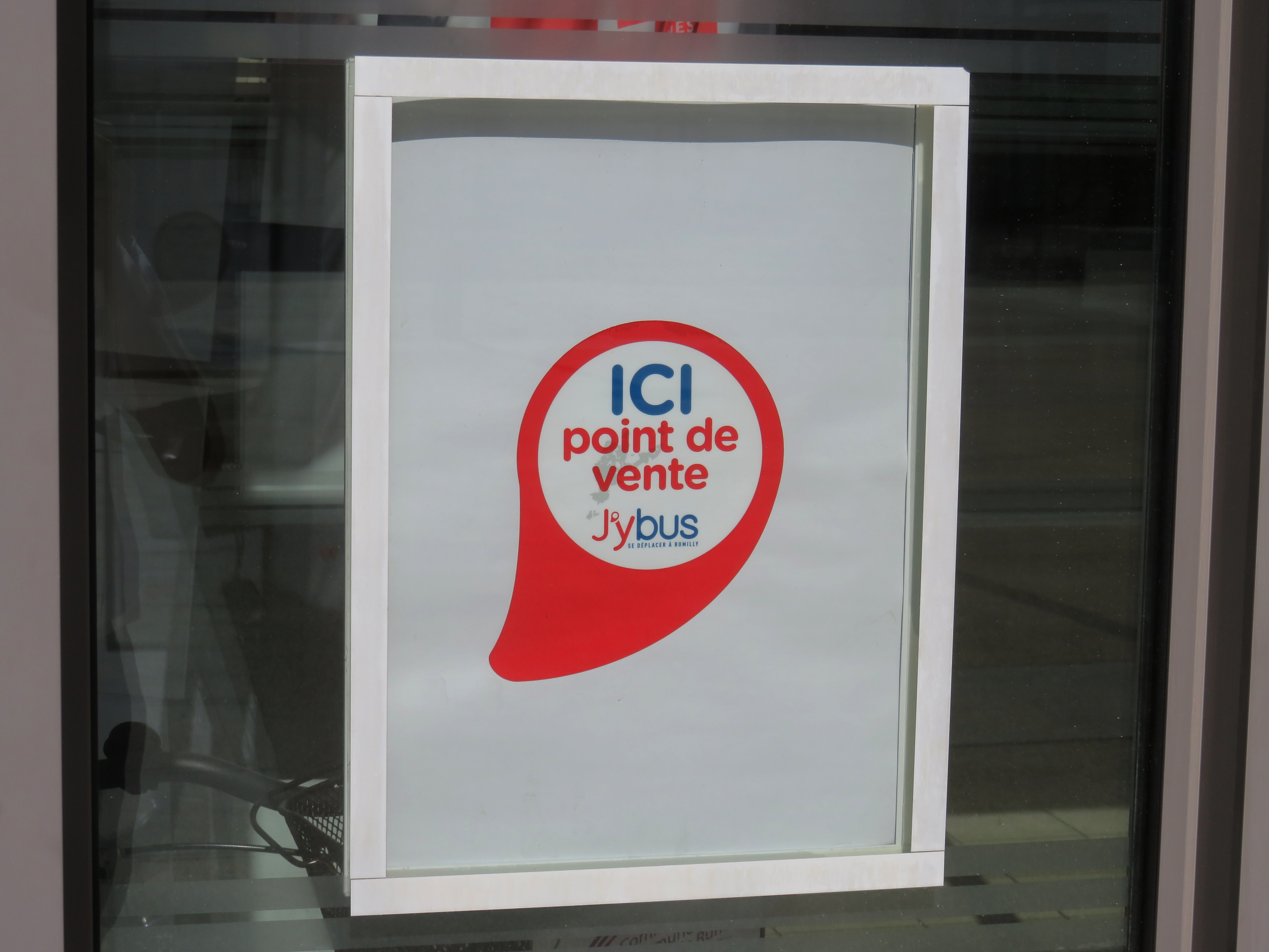 The poster affix on the front window of the reseller of the bus network J’yBus.